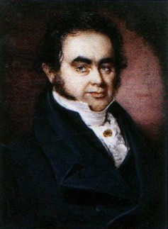 The British Antarctic explorer James Weddell (1787-1834)